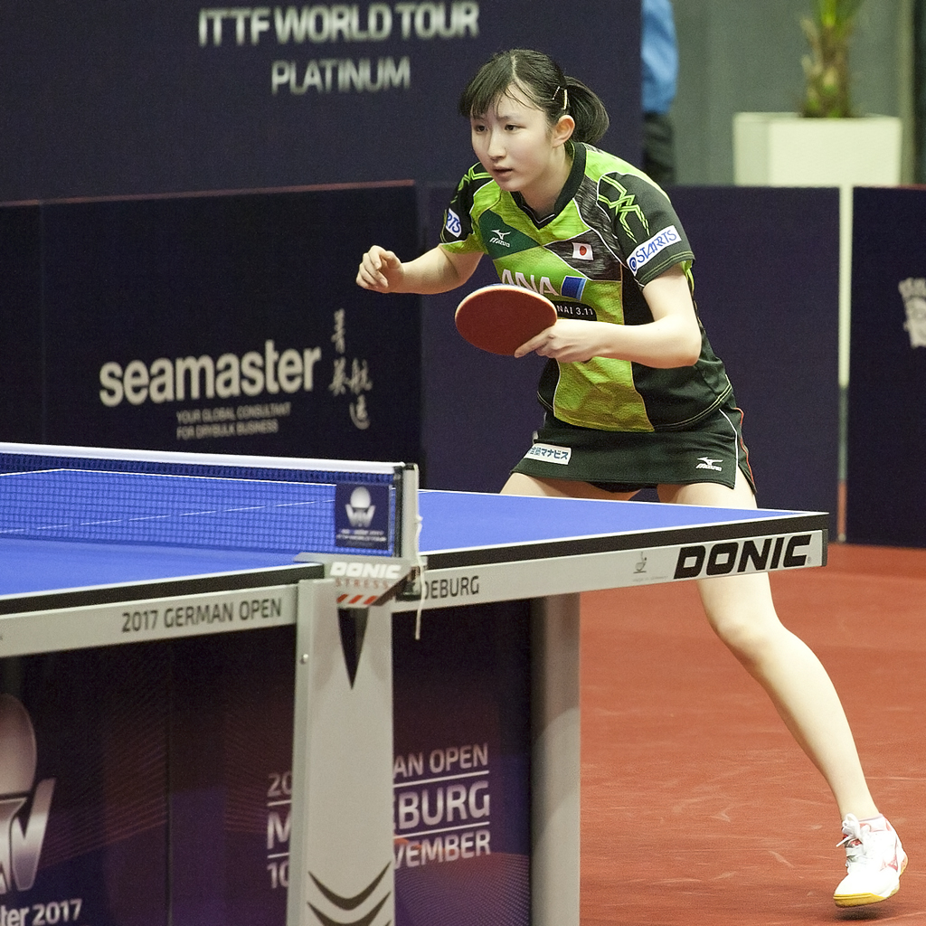 ITTF World Tour 2017 German Open, Magdeburg, Germany, 7 Nov 2017 - 12 Nov 2017, Hina Hayata